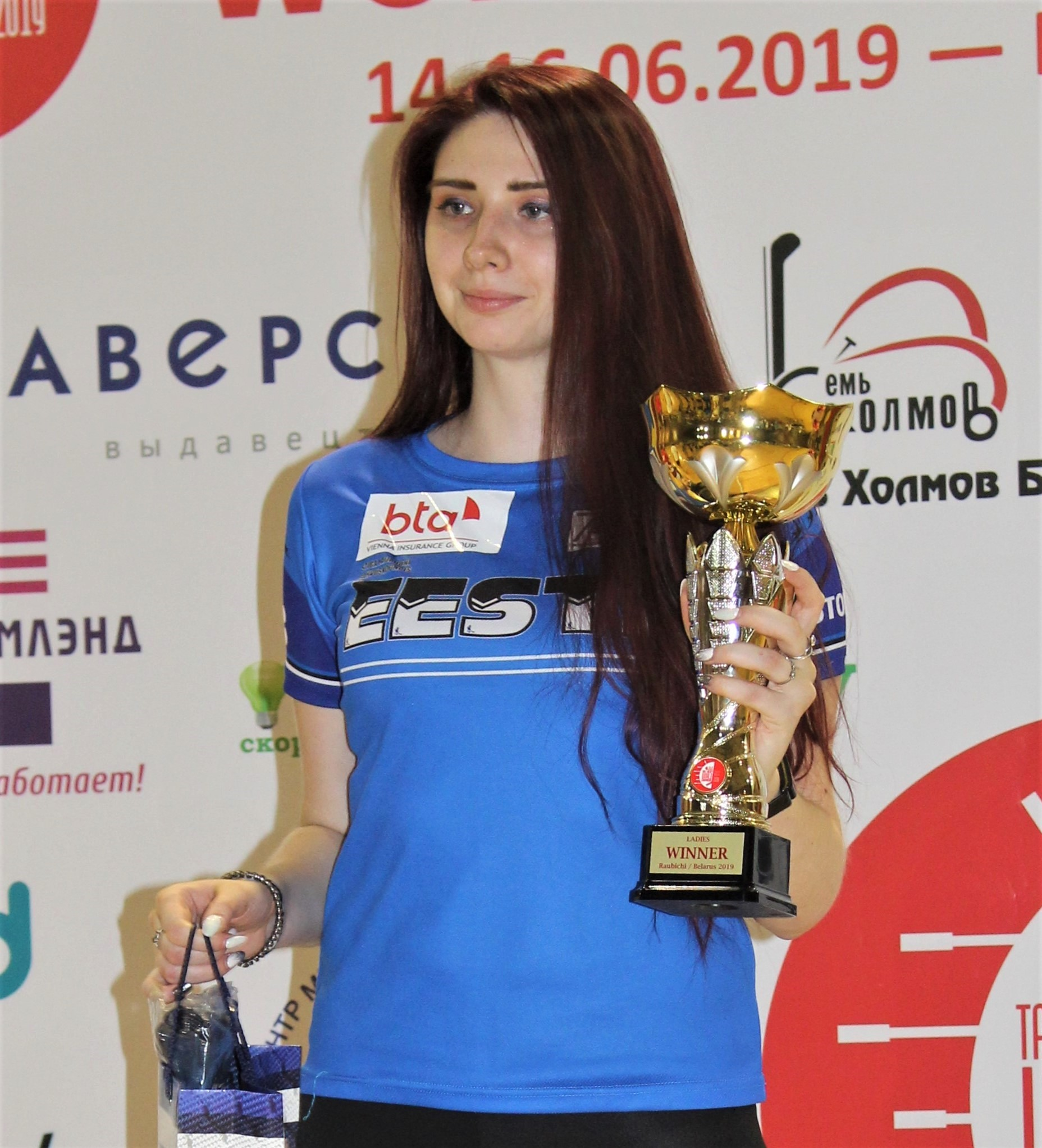 Awarding of Maria Saveljeva, world women champion - 2019